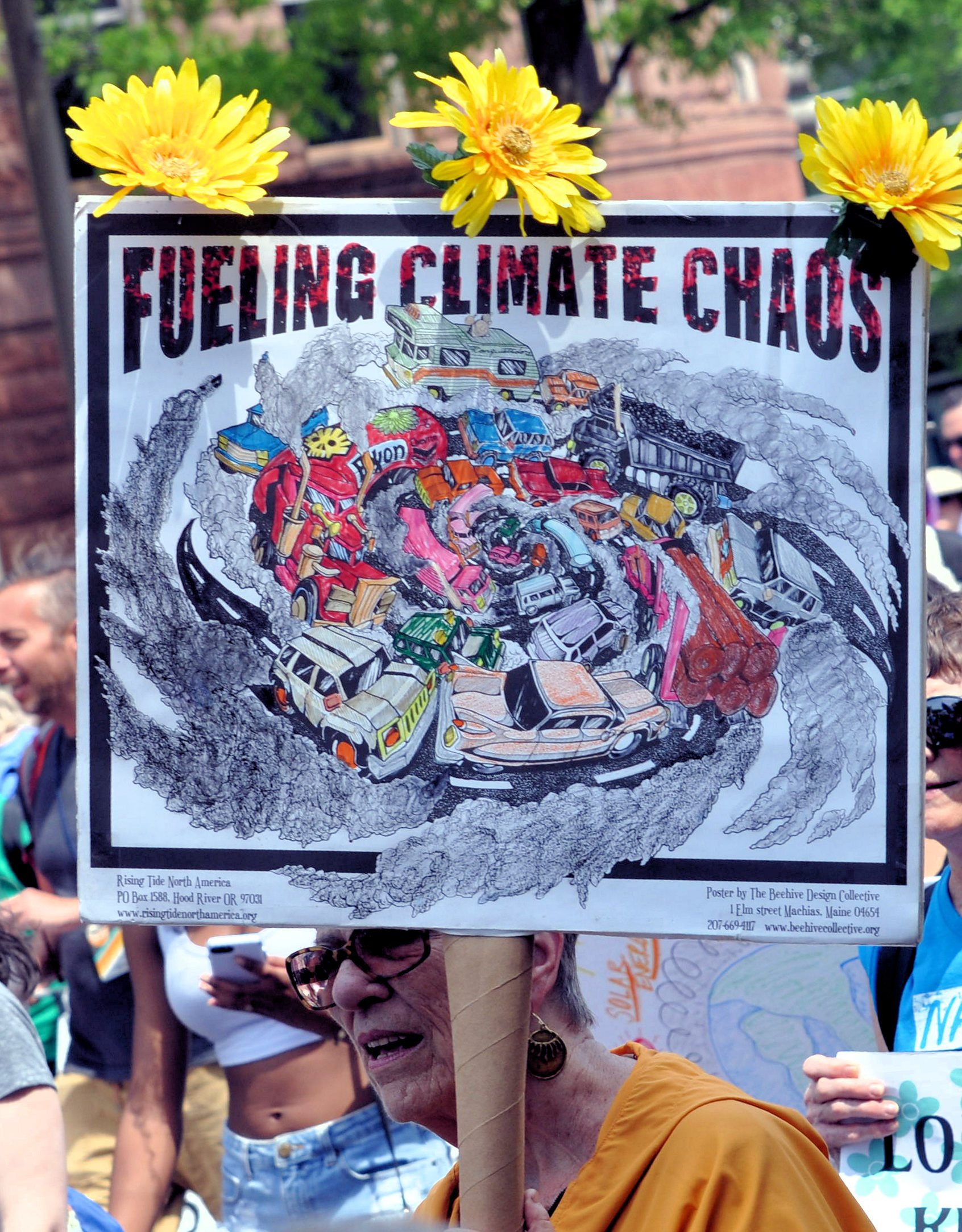 Placard "Fueling climate chaos", at the People's Climate March 2017.